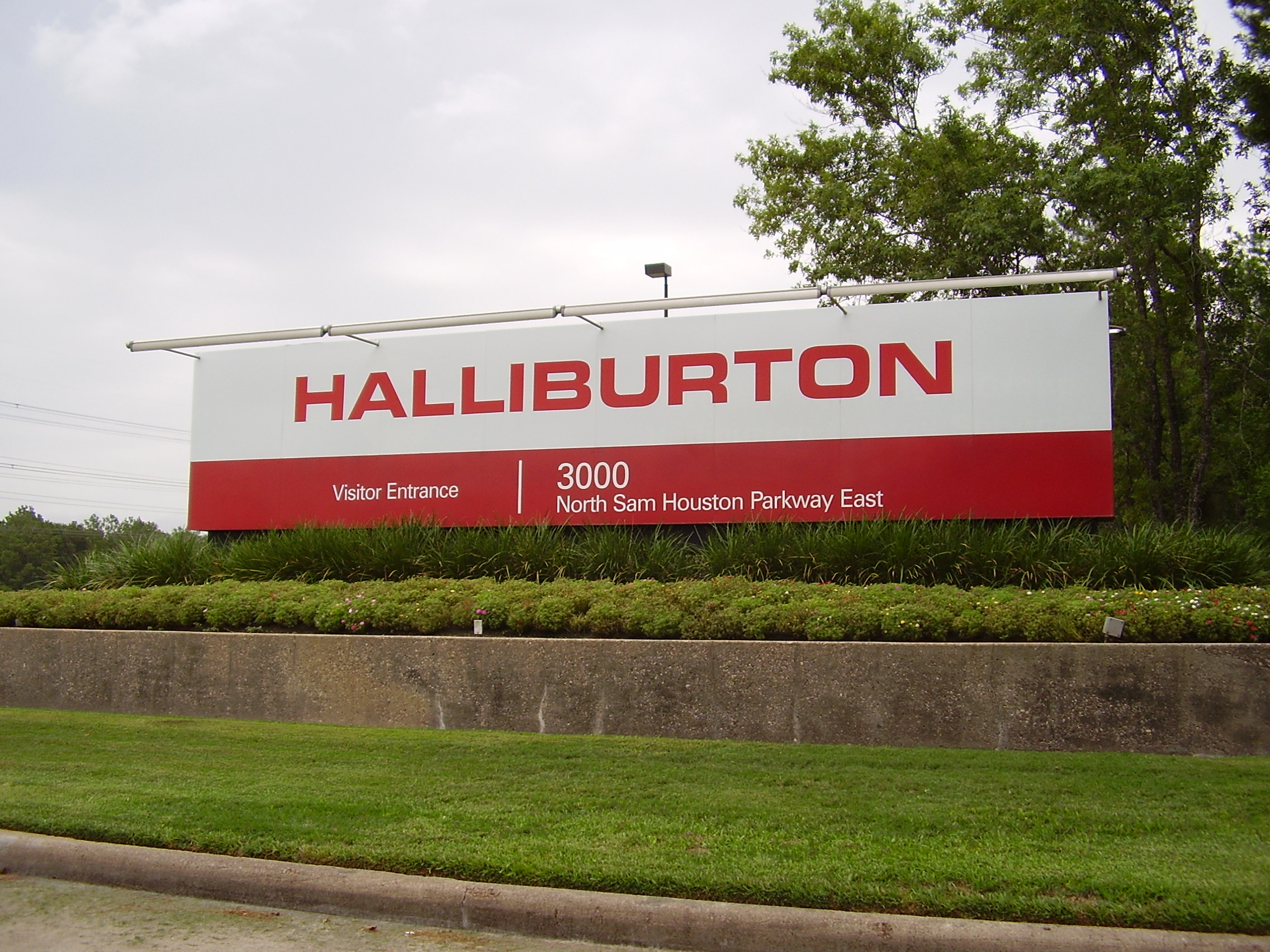 Halliburton's North Belt Office, which contains the corporate headquarters